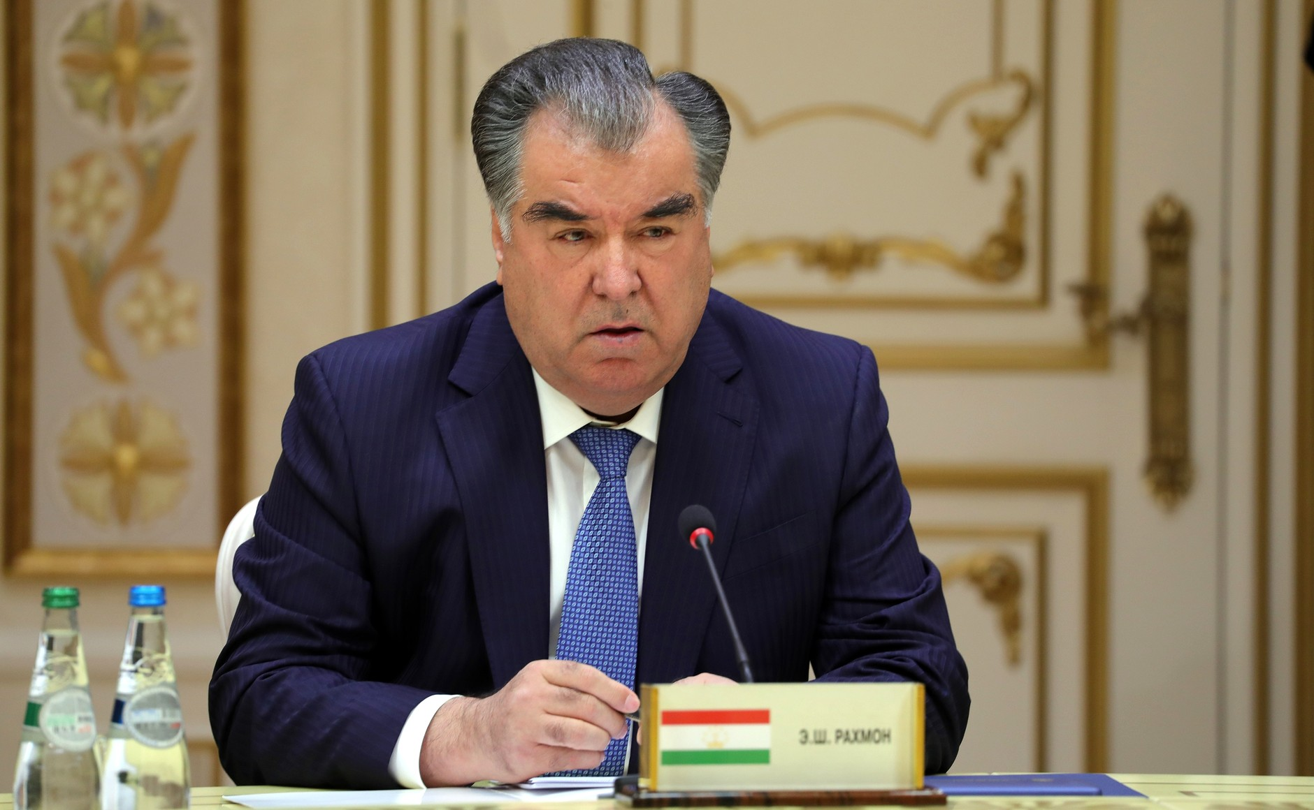 Tajik President Emomali Rahmon speaking in Minsk, Belarus.